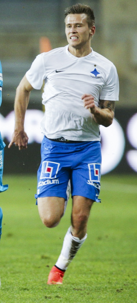 05.02.2016. Ïîðòóãàëèÿ, Àëãàðâè. Ìåæñåçîííûé òóðíèð «Atlantic Cup», ãðóïïà B, «Íîðð÷åïèíã» — «Çåíèò». Íà ñíèìêå â ñèíåé ôîðìå: Þðèé Æèðêîâ, çàùèòíèê ÔÊ «Çåíèò».